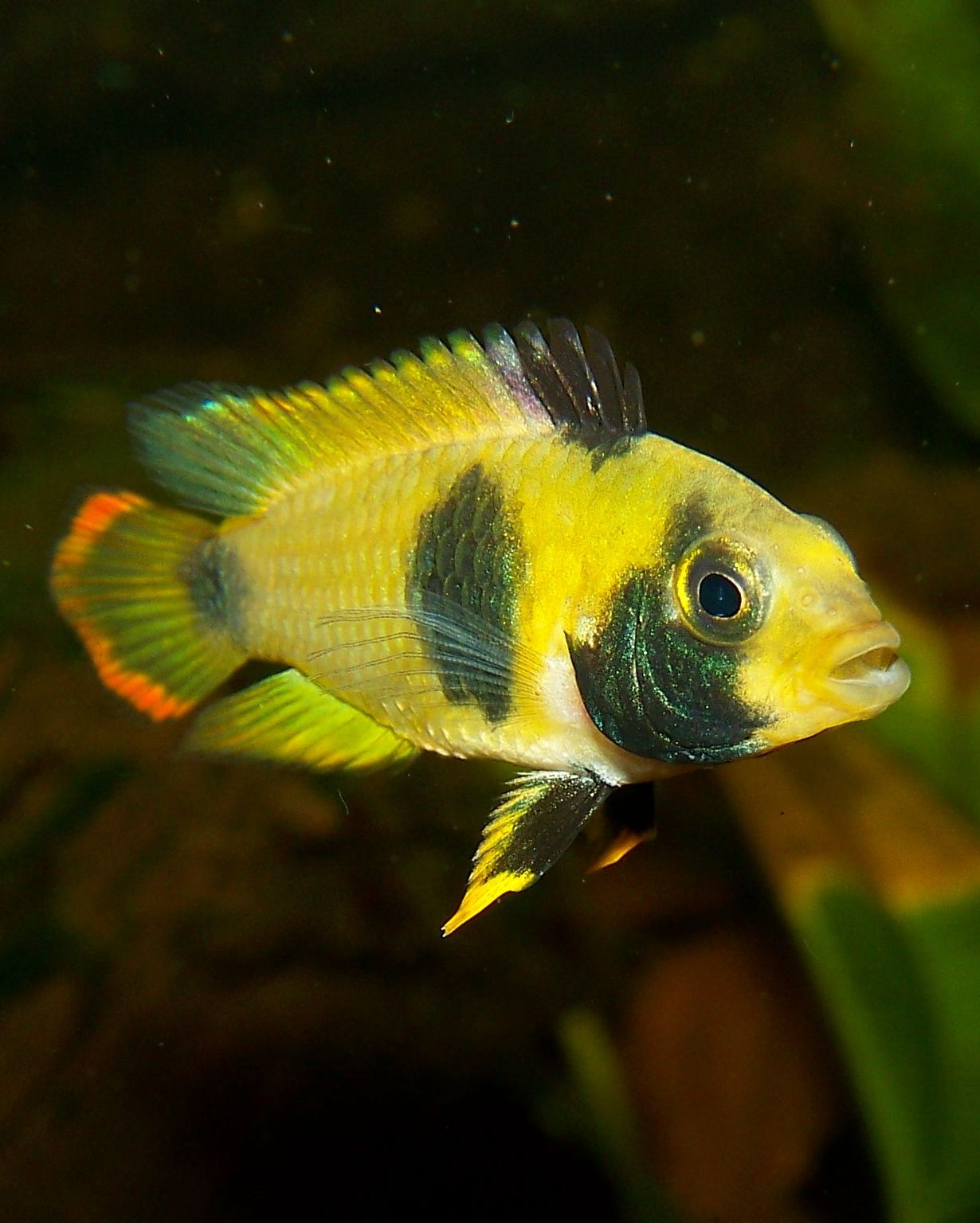 Apistogramma nijsseni female